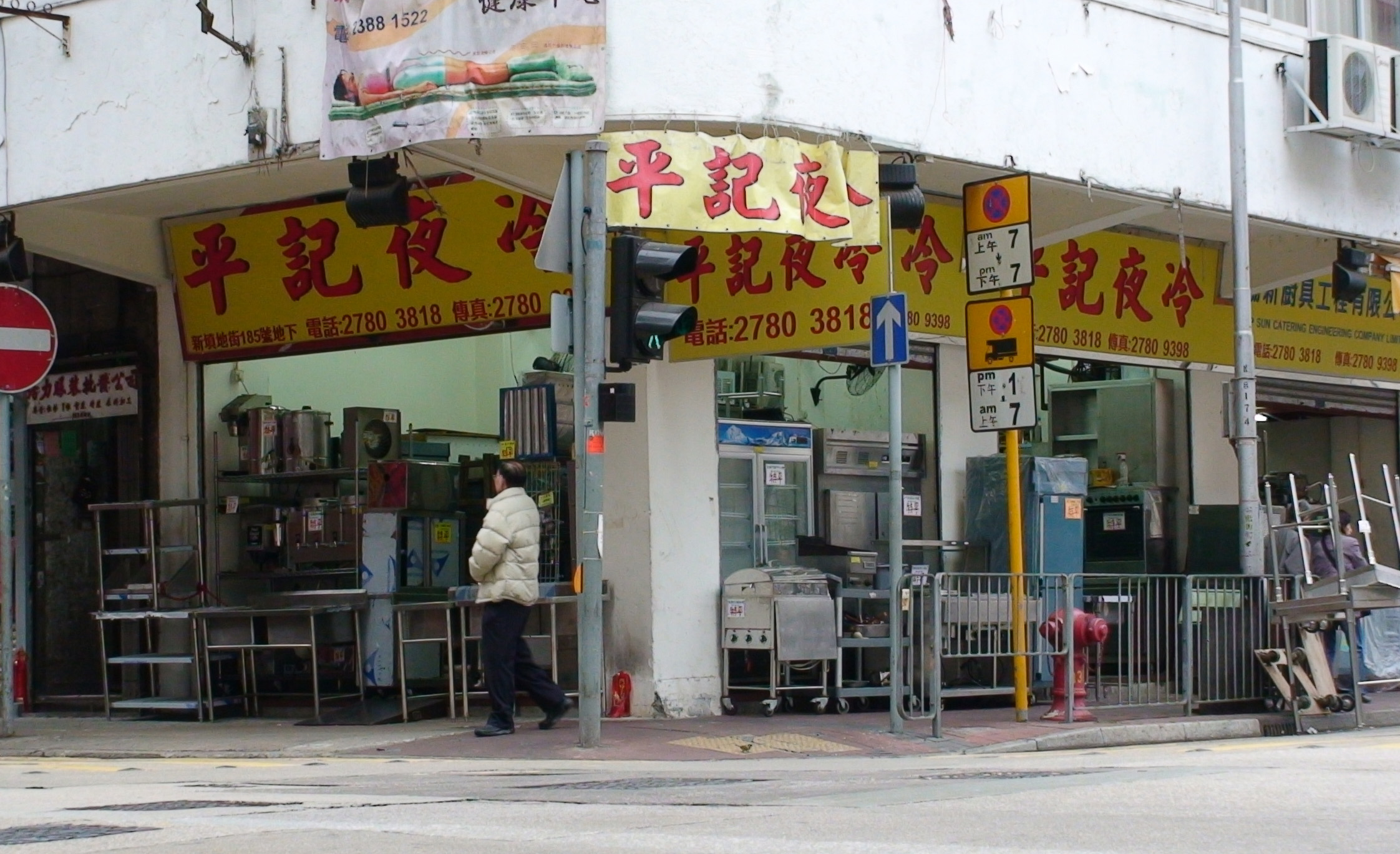 A local version of Second hand store (夜冷鋪) in Yau Ma Tei , Hong Kong